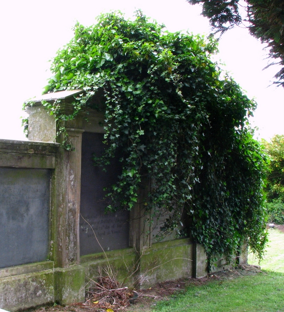 McAdam memorial, Knockbreda Cemetery, Belfast. The memorial to various members of the McAdam family, the headstone heavily obscured by ivy. The most celebrated member of the family buried here is Robert Shipboy McAdam (1808-95) who, in 1832 along with his brother James, established the Soho Engineering Foundry at Townsend Street, Belfast. Said to have spoken some 13 languages, he published a Gaelic Grammar and founded the Ulster Gaelic Society. McAdam was also the principal founder of the Ulster Journal of Archaeology in 1853 and a member of the Belfast Literary Society, the Belfast Natural History and Philosophical Society, the Linenhall Library and the Harmonic and Harp Societies. He lived in College Square East - see 439230.